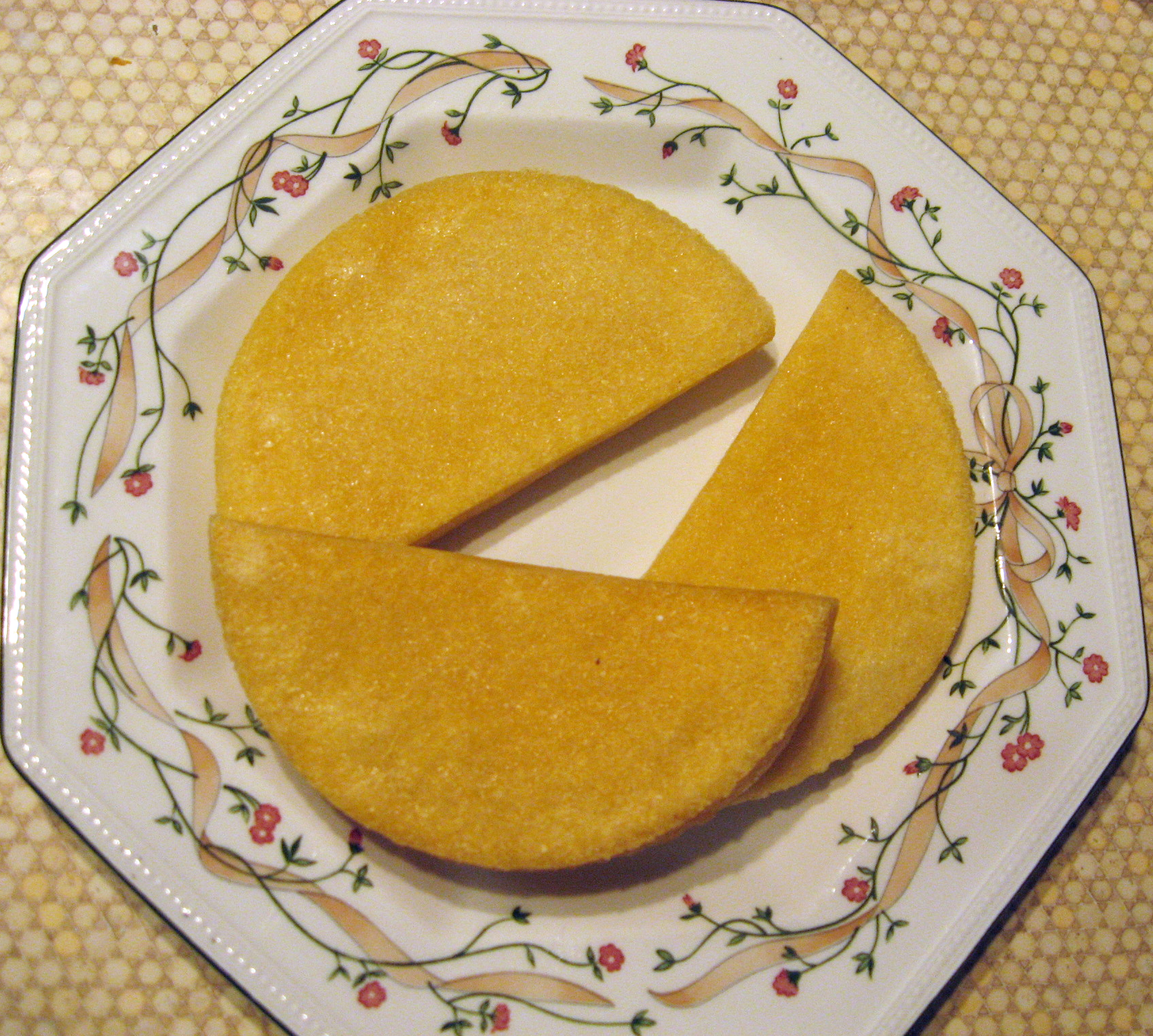 Jamaican bammies on a plate